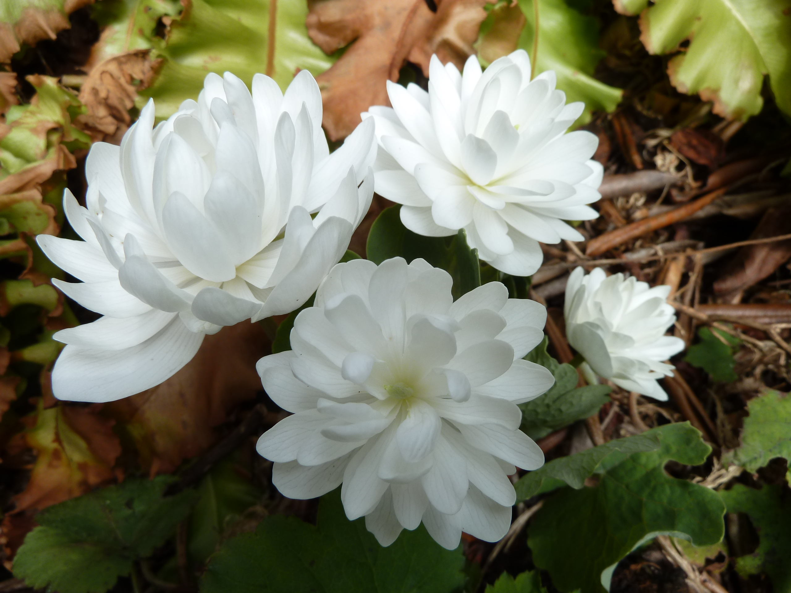 Sanguinaria canadensis 'Multiplex'